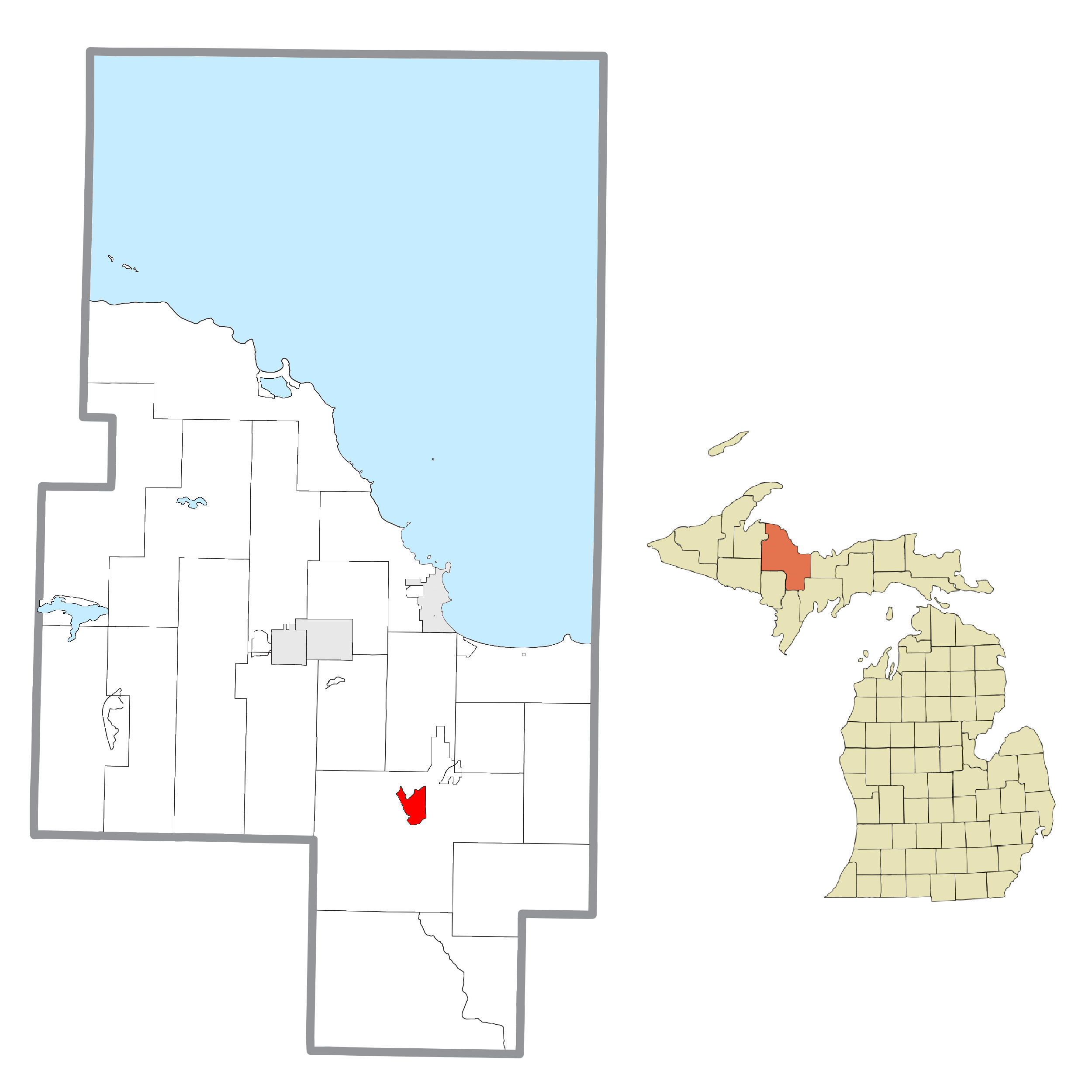 Gwinn, MI